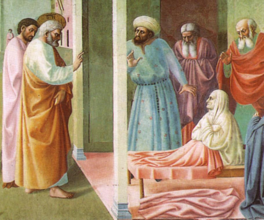 From Healing of the Cripple and Raising of Tabitha by Masolino da Panicale